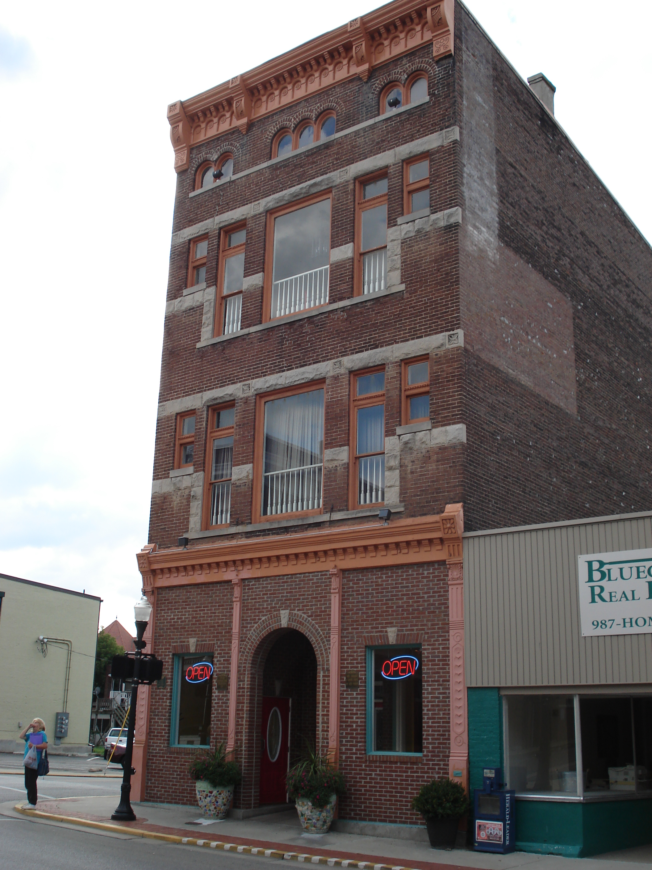 Shinner Building in Paris, Kentucky. The world's tallest three storey building, which is currently home to Paradise Cafe.